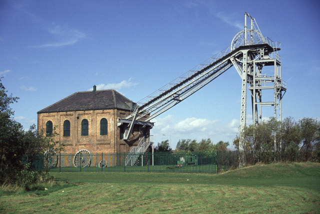 Washington F Pit museum in Albany, Washington, Tyne and Wear, Northeast England.